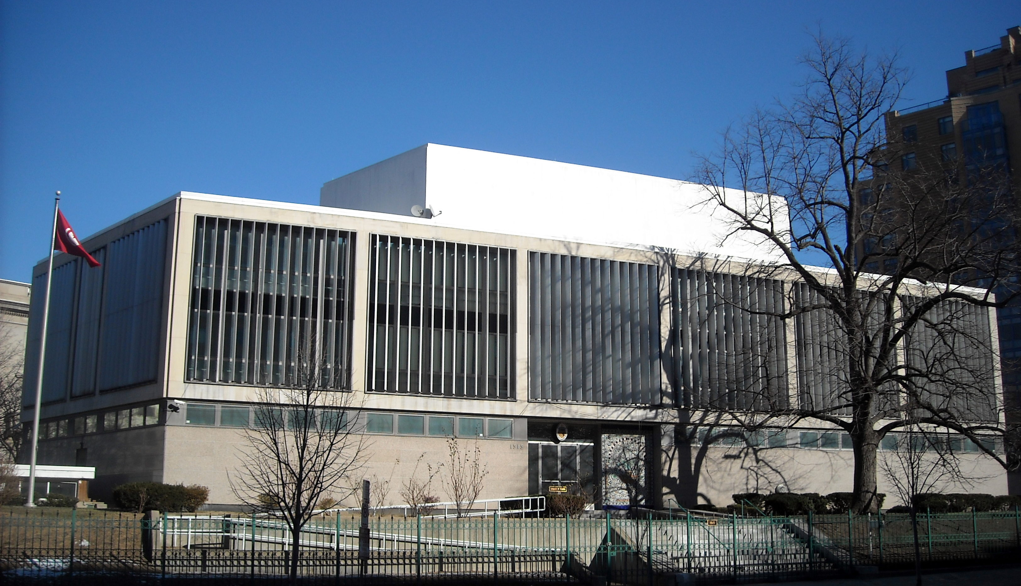 The Embassy of Tunisia is located at 1515 Massachusetts Avenue NW in Washington, D.C. The embassy is on the eastern end of Embassy Row. The building was constructed in 1955 and originally housed the American Association for the Advancement of Science.